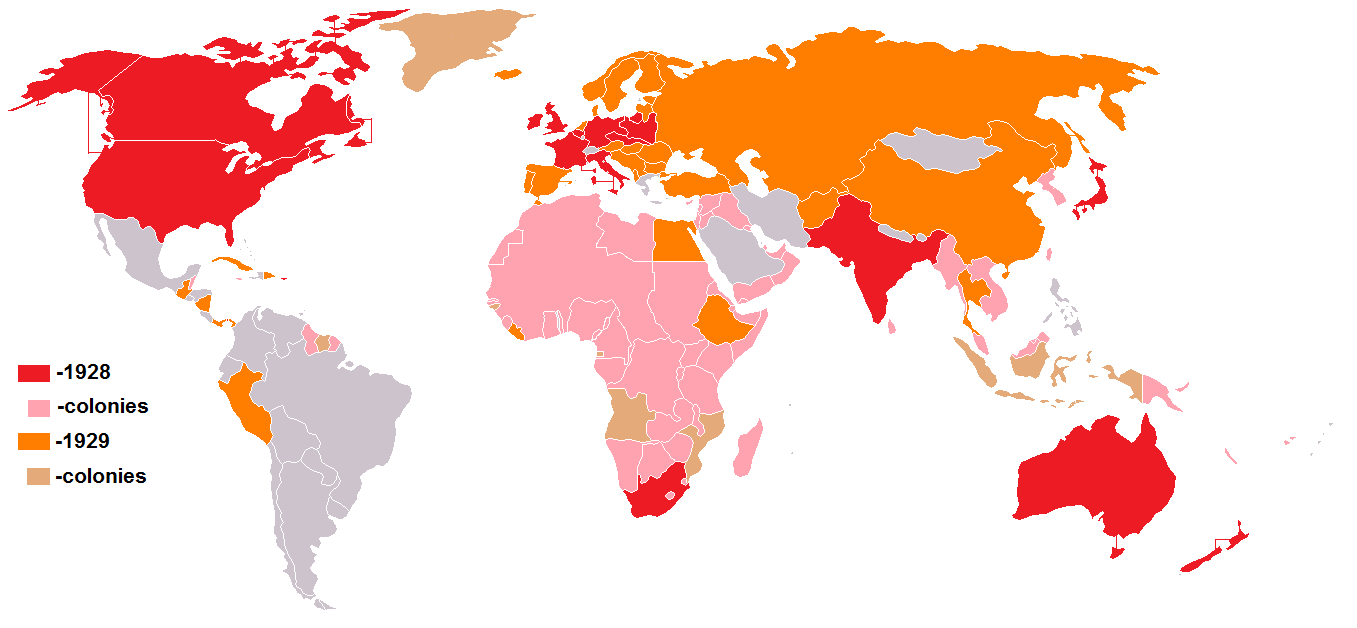 Map of those nations who ratified the Kellogg-Briand Pact and their colonies.